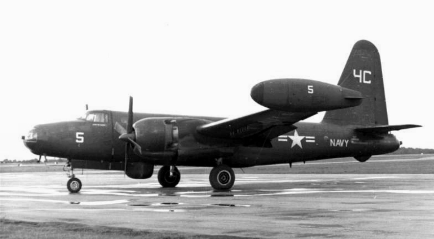 A U.S. Navy Lockheed P2V-6 Neptune from Patrol Squadron VP-21 Black Jacks at Blackbushe, Hampshire (UK), in September 1954.